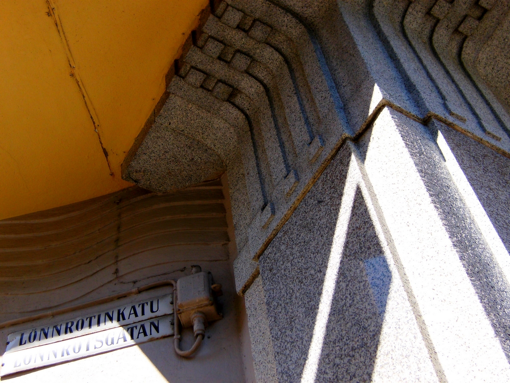 The street sign of "Lönnrotinkatu", Helsinki, Finland